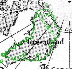 Monochrome enlargement of small-scale map of Greenland